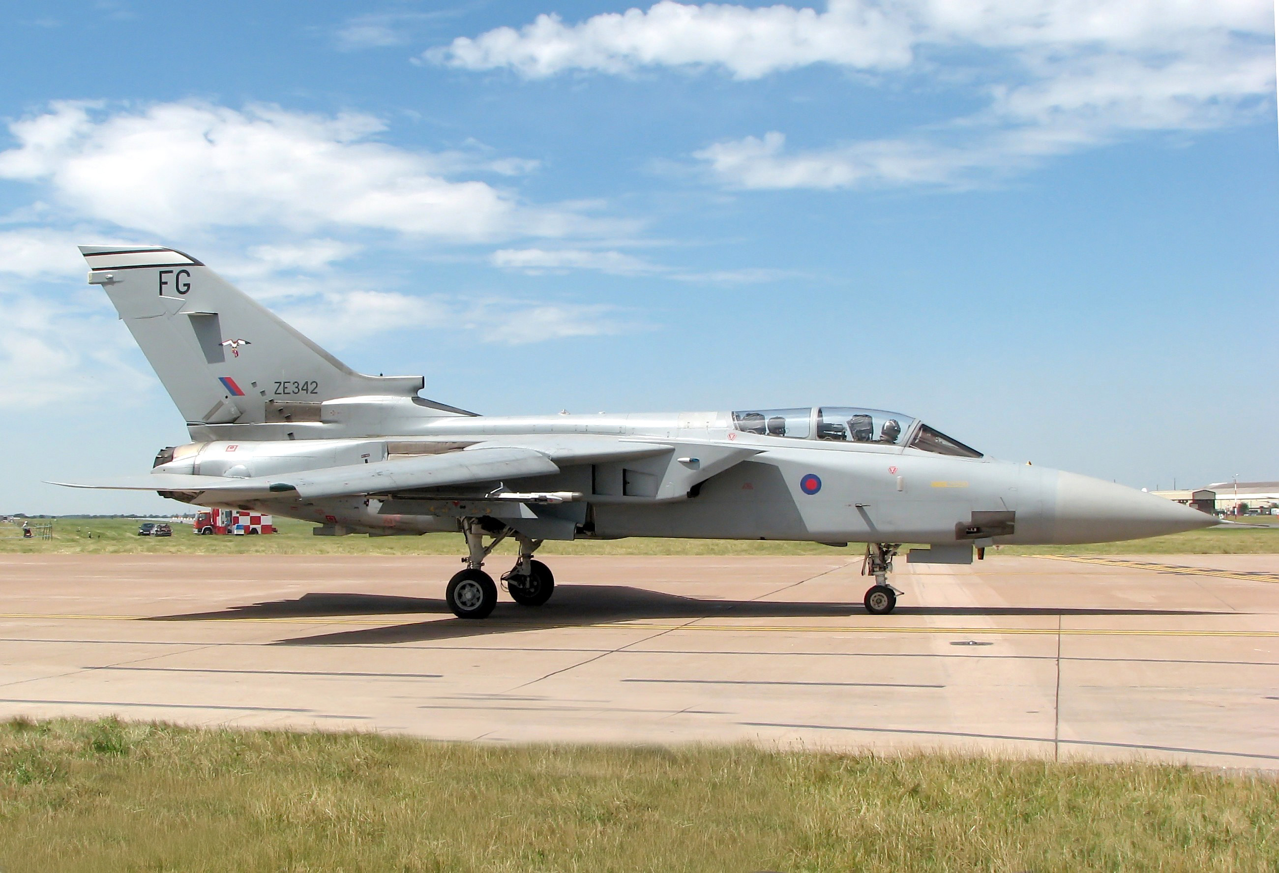 RAF Panavia Tornado F3 (identifier ZE342) taxiing for take off at the Royal International Air Tattoo, RAF Fairford, Gloucestershire, England. Photographed by Adrian Pingstone on July 17th 2006 and released to the public domain.